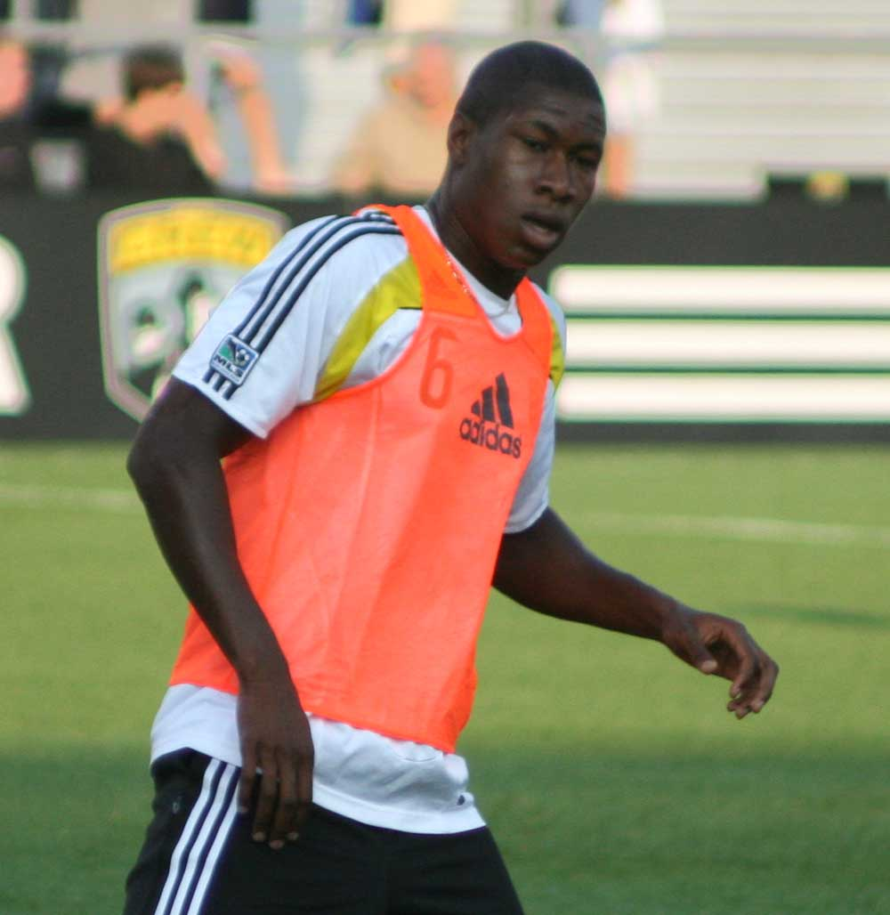 This is Andy Iro's first minute of play for the Columbus Crew. The game took place at Columbus Crew Stadium, on March 29, 2008 vs Toronto FC.